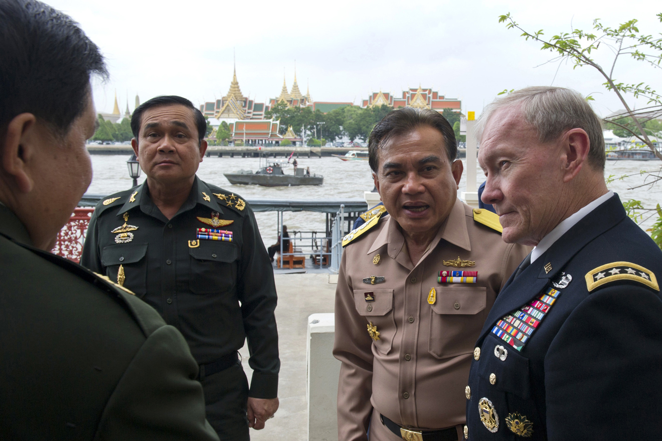 Chairman of the Joint Chiefs of Staff Gen. Martin E. Dempsey talks with Thailand's Joint Chiefs during a visit to Bangkok, Thailand, on June 5, 2012.